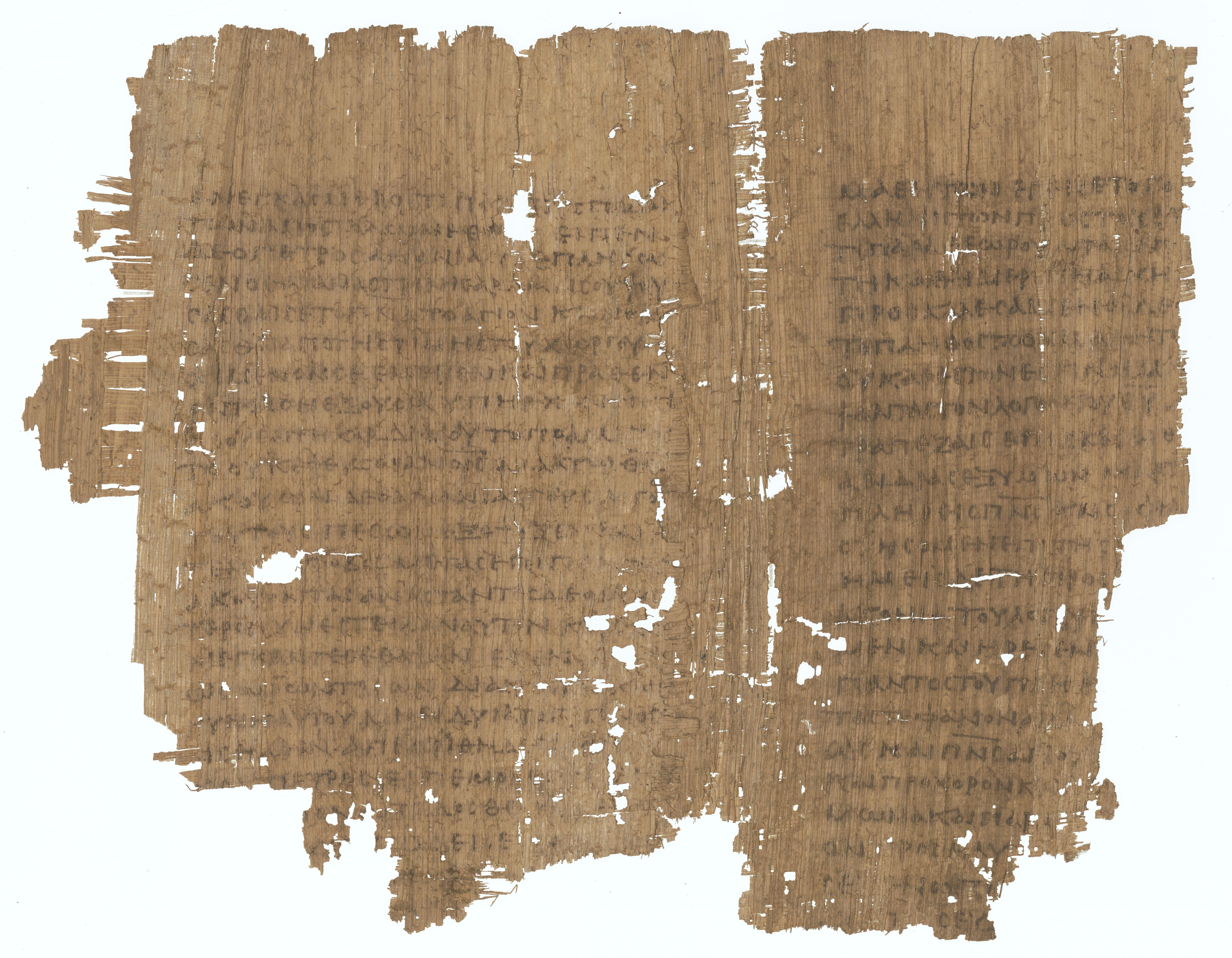 Papyrus 8 - Staatliche Museen zu Berlin inv. 8683 - Acts of the Apostles 4, 5 - recto